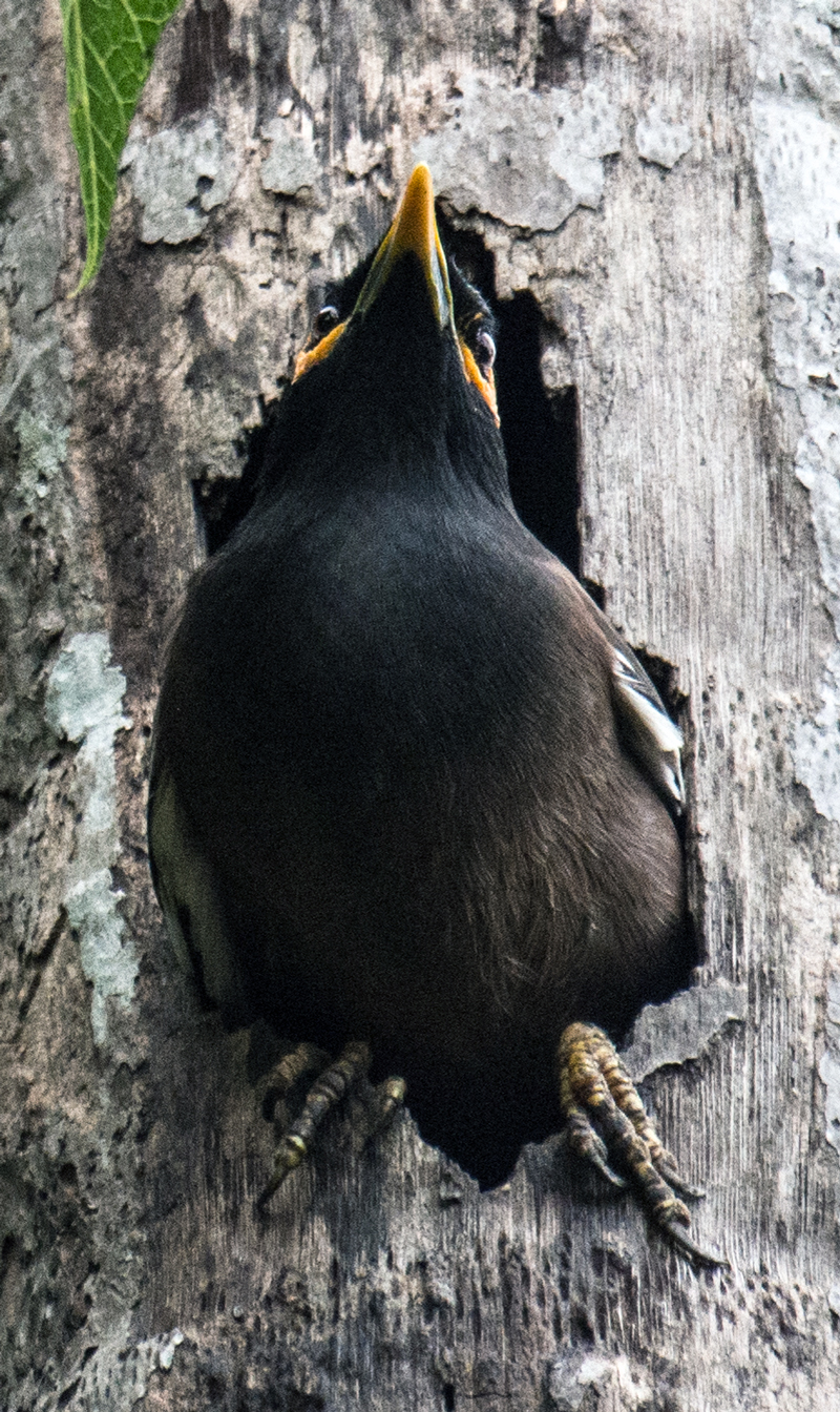 The common myna (Acridotheres tristis), sometimes spelled mynah, also sometimes known as "Indian myna", is a member of the family Sturnidae (starlings and mynas) native to Asia. An omnivorous open woodland bird with a strong territorial instinct, the myna has adapted extremely well to urban environments.